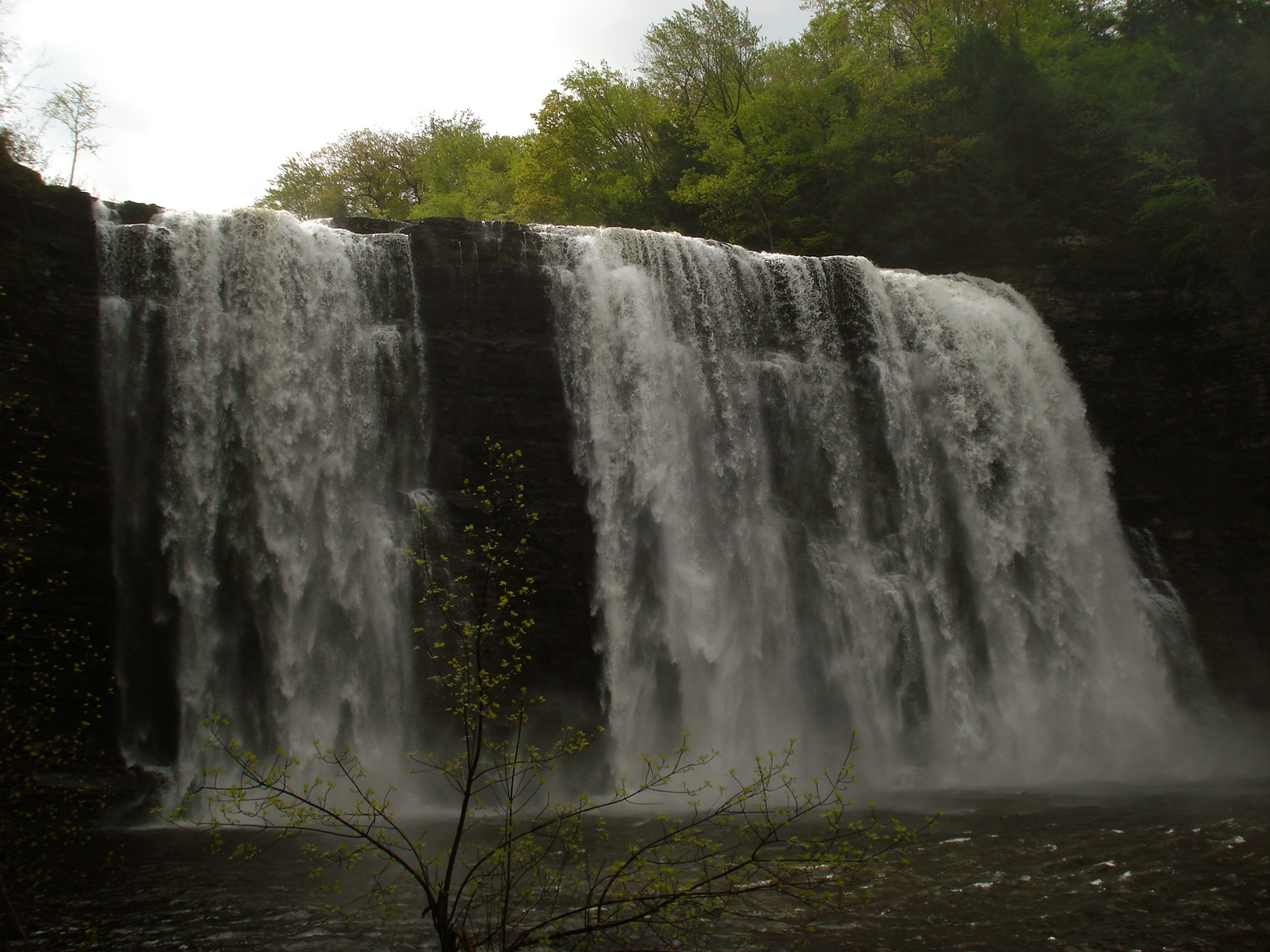 View of the Salmon River Falls from below, taken in May of 2009.